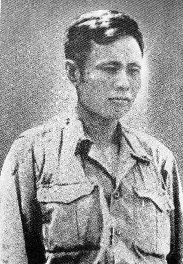 Aung San as a member of the Burma Independence Army.